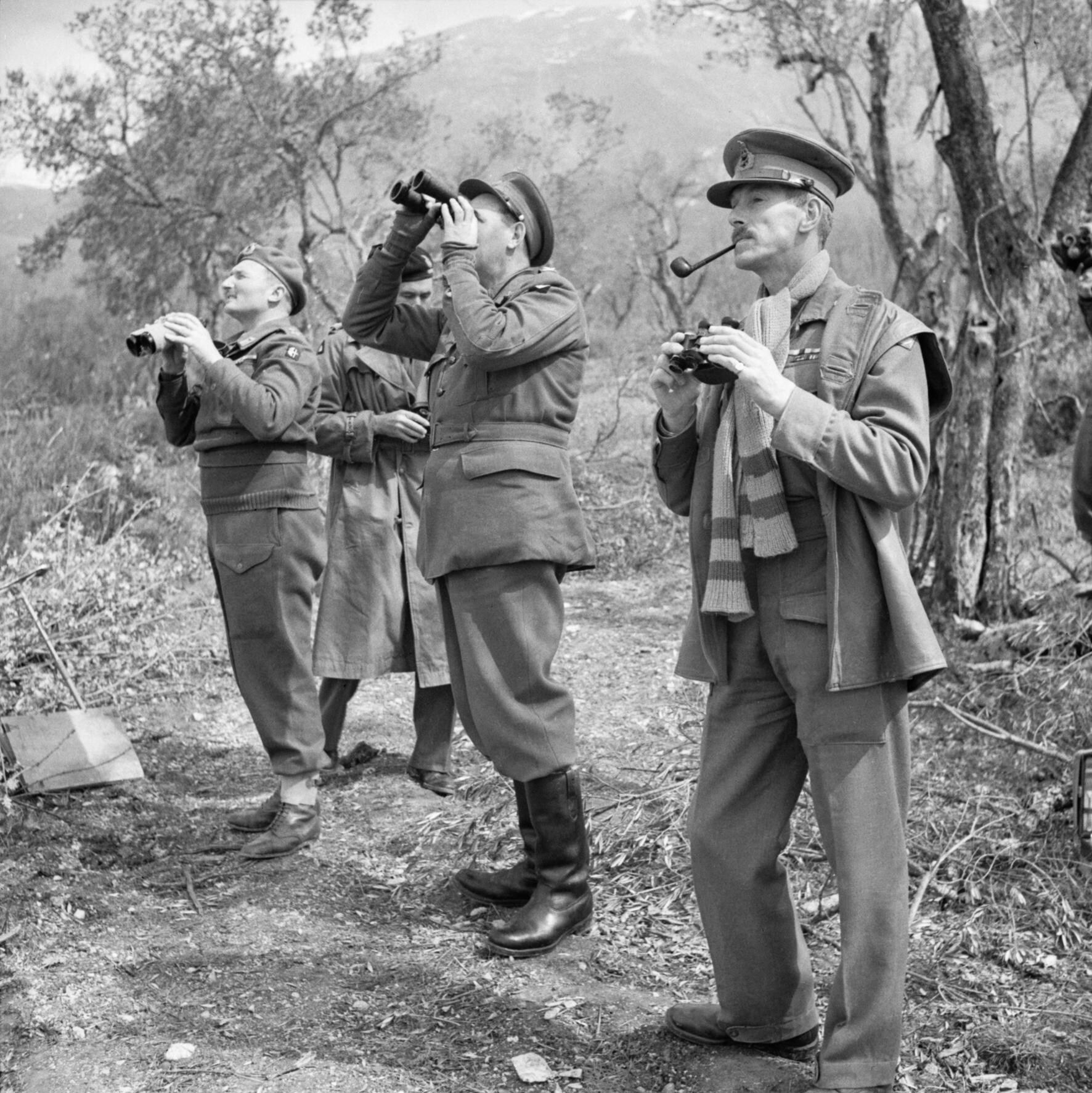 General Oliver Leese, commanding British Eighth Army in Italy, with his corps commanders watching an Allied bombing raid on Cassino, 15 March 1944. General Leese, commanding Eighth Army with his corps commanders watching an Allied bombing raid on Cassino, 15 March 1944.